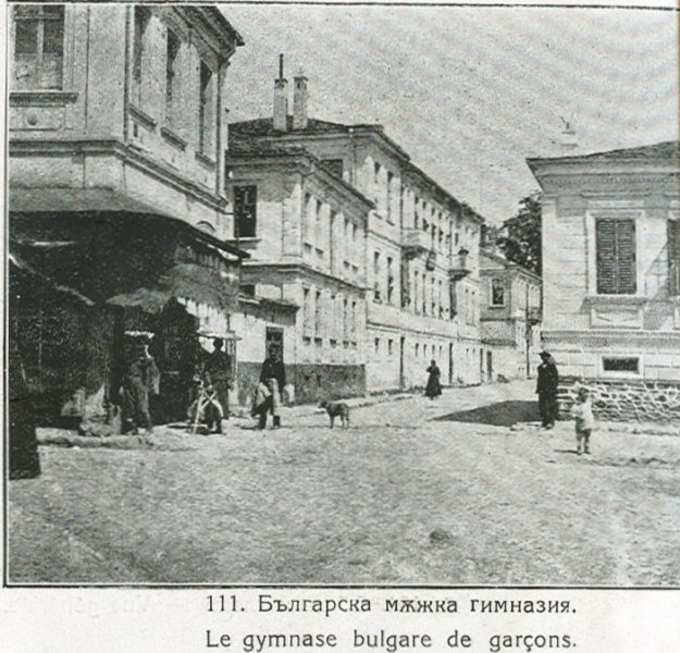 Bitolya bulgarian high school building